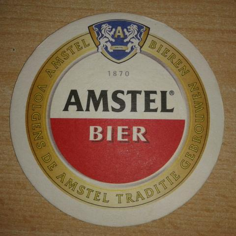 Amstel coaster (beermat)